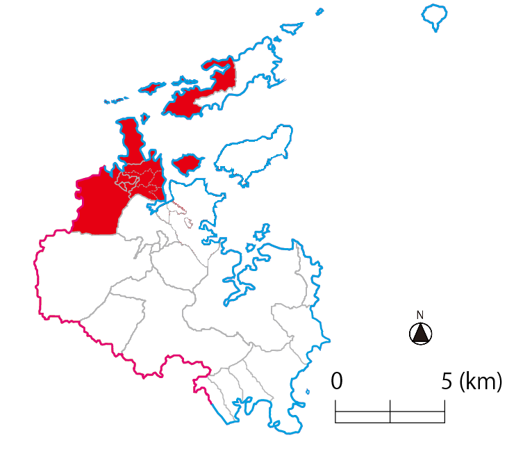 This map shows the school district of Toba city Toba elementary school in Mie, Japan.